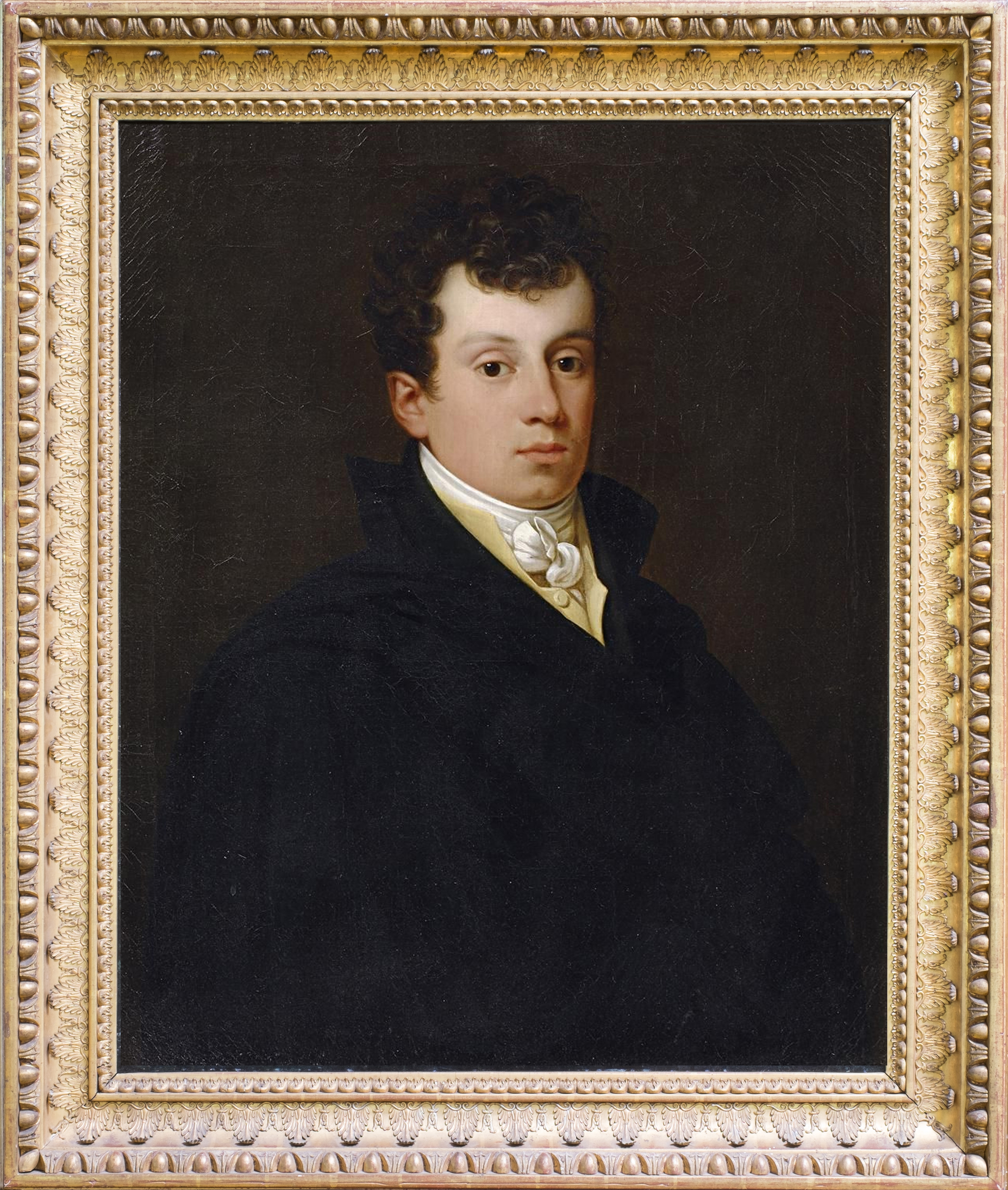 Count August Carl Bose (1787 - Dresden - 1862)